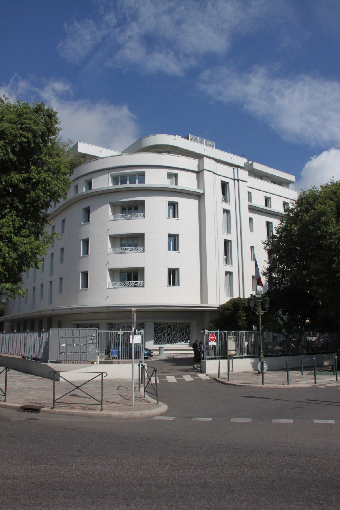 City of Bastia